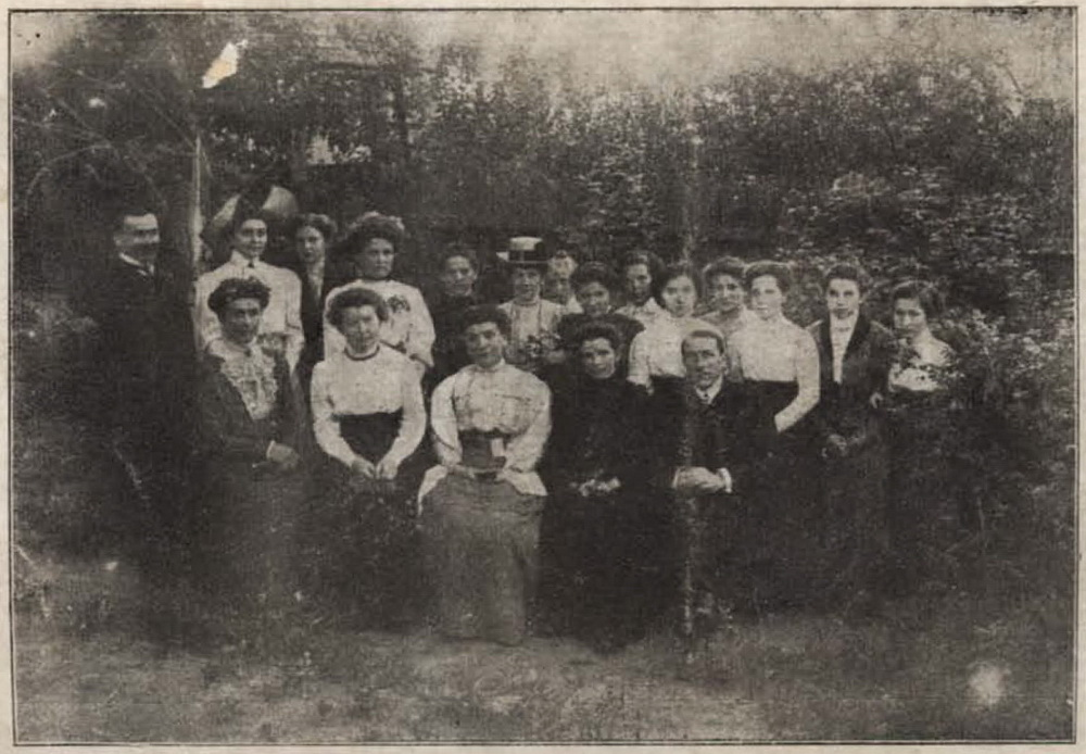 Polish society "Oswiata" in Minsk (Russian empire). Staff. Foto before 1908 AD